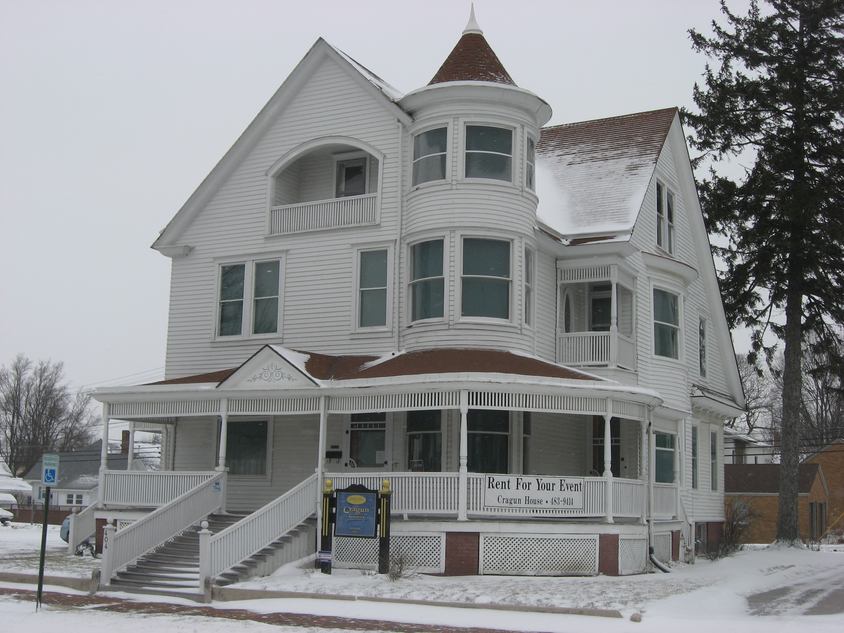 Front of the Strange Nathanial Cragun House, located at 404 W. Main Street in Lebanon, Indiana, United States. Built in 1893 and now maintained as a historic house museum by the Boone County Historical Society, it is listed on the National Register of Historic Places.